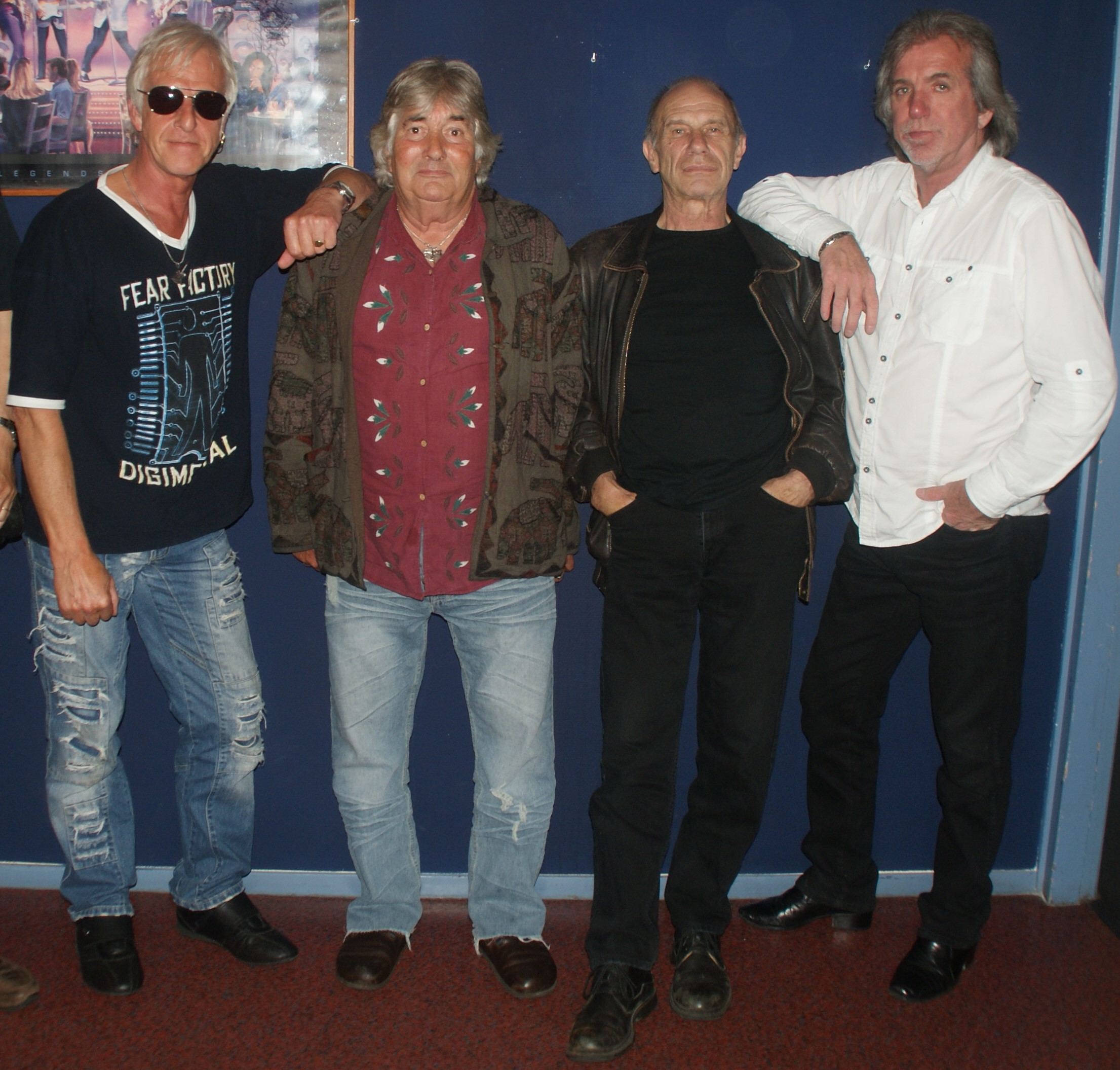 Troggs